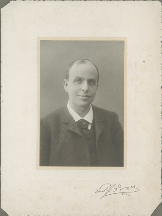 French writer Marcel Schwob (1867-1905)